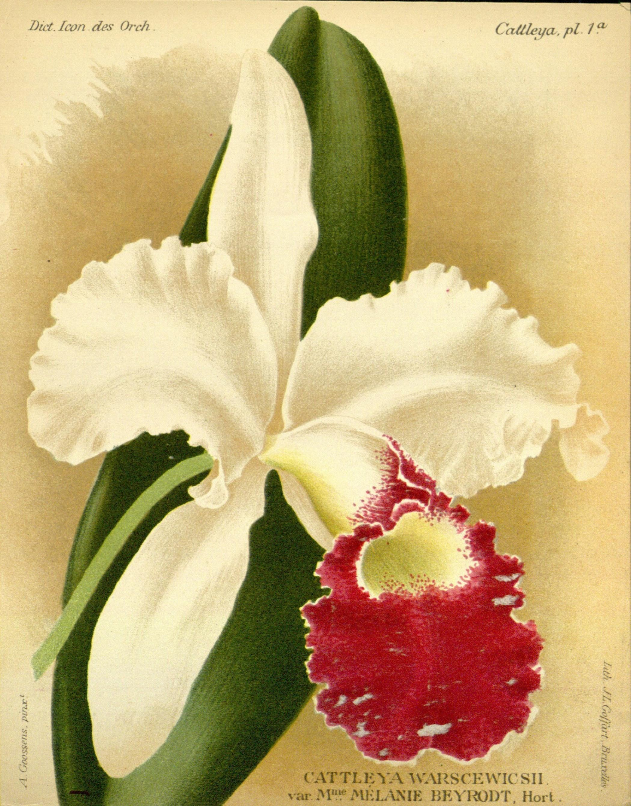 \TTLKYA WARSCKWÏt SI M"«\MKLANIE HKMWDT \U